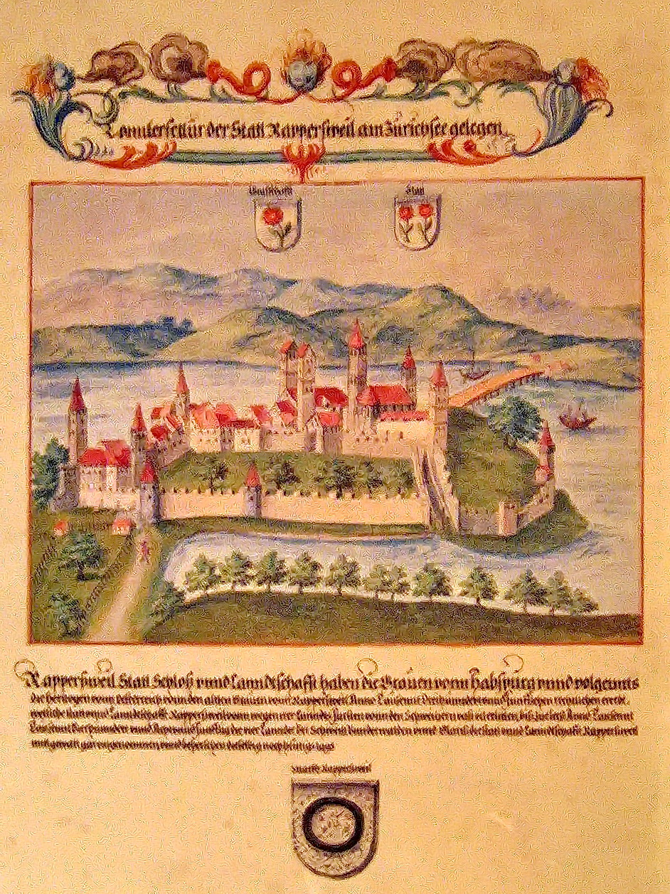 Stadtmuseum Rapperswil (SG) : Rapperswil in Codex Vindobonensis, 1550.